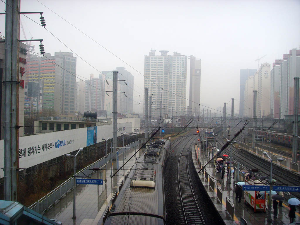 Guro Station